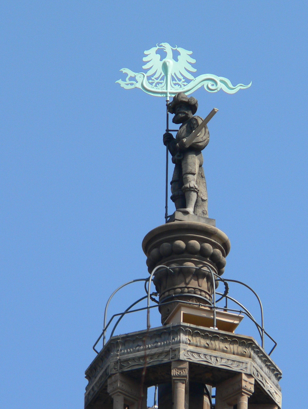 Watchman called "Kiliansmännle" on the top of the Church "Kilianskirche" of Heilbronn - Germany